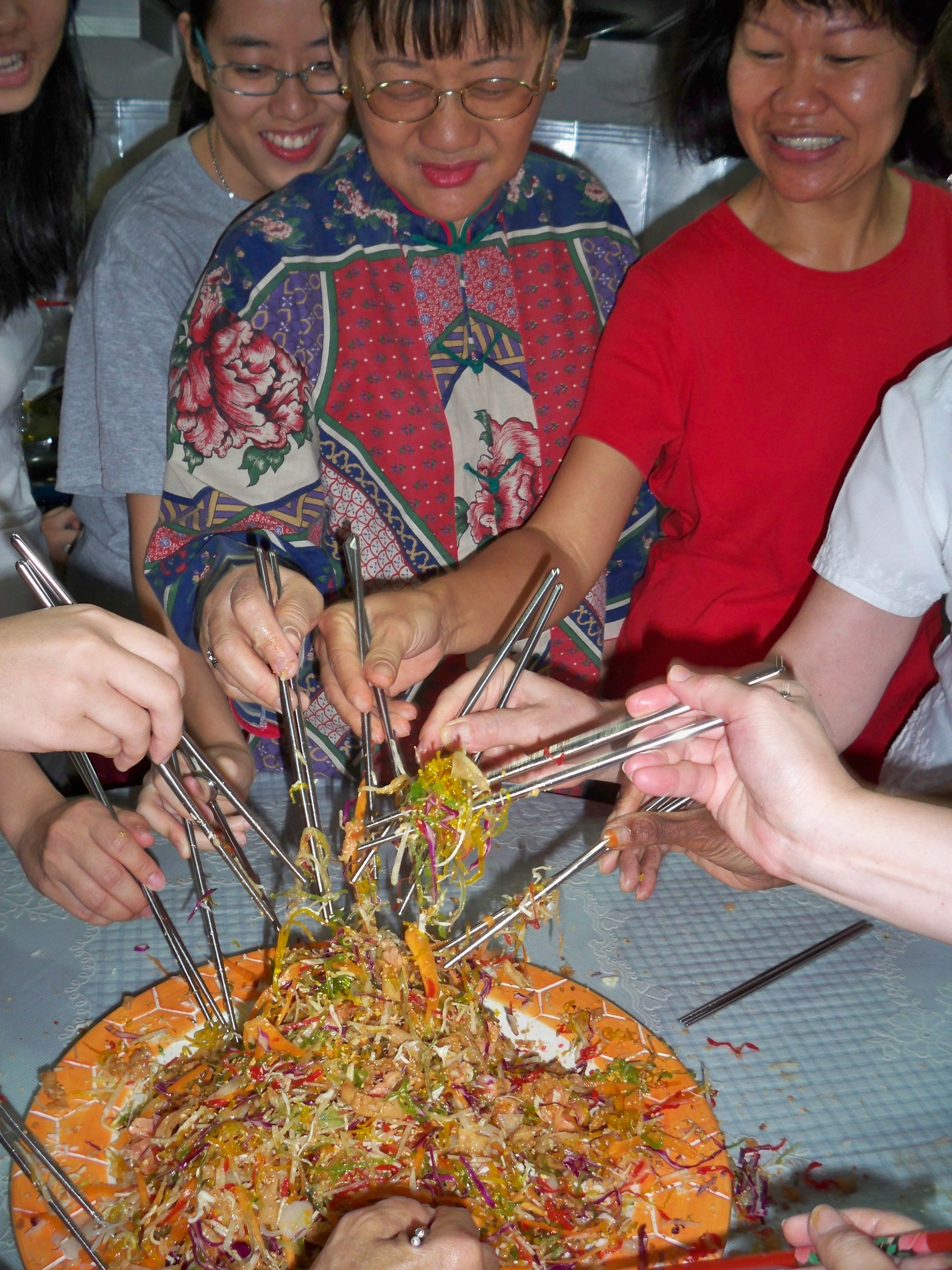 The preparation of yee sang salad during Chinese New Year (Malaysia, 2012)